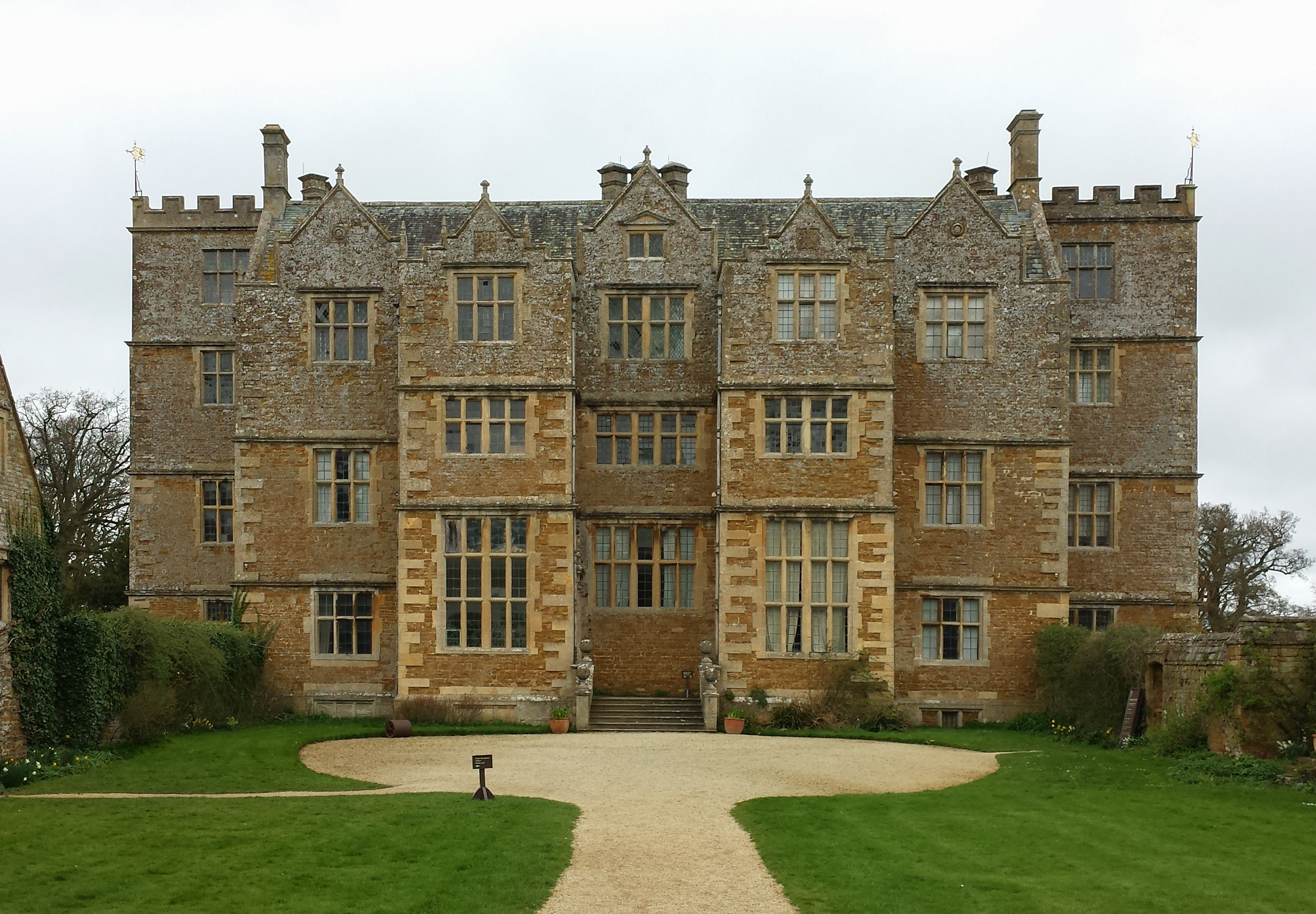 The front of Chastleton House, Oxfordshire. This is a Grade I Listed Building in England.